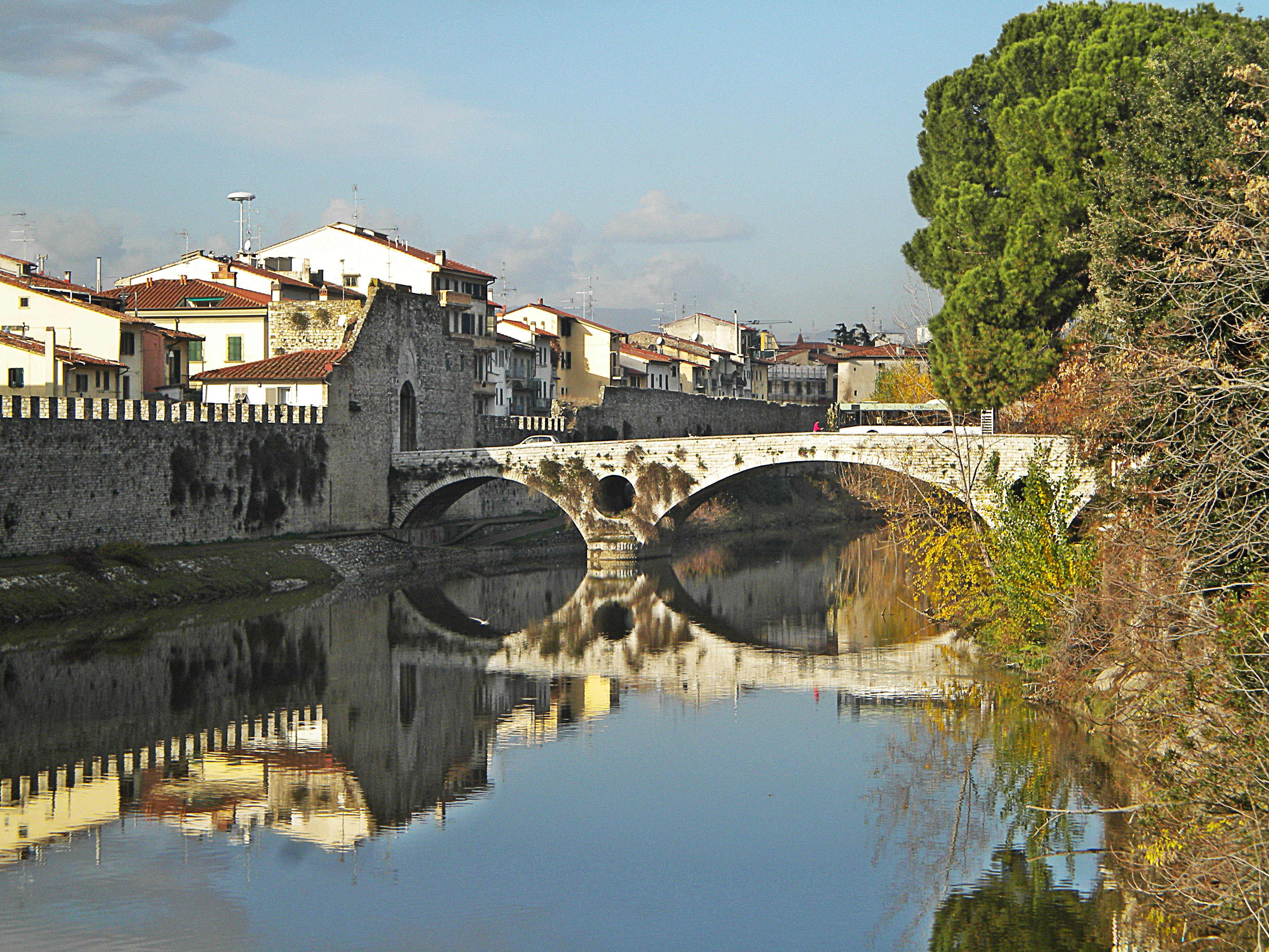 mercatale bridge